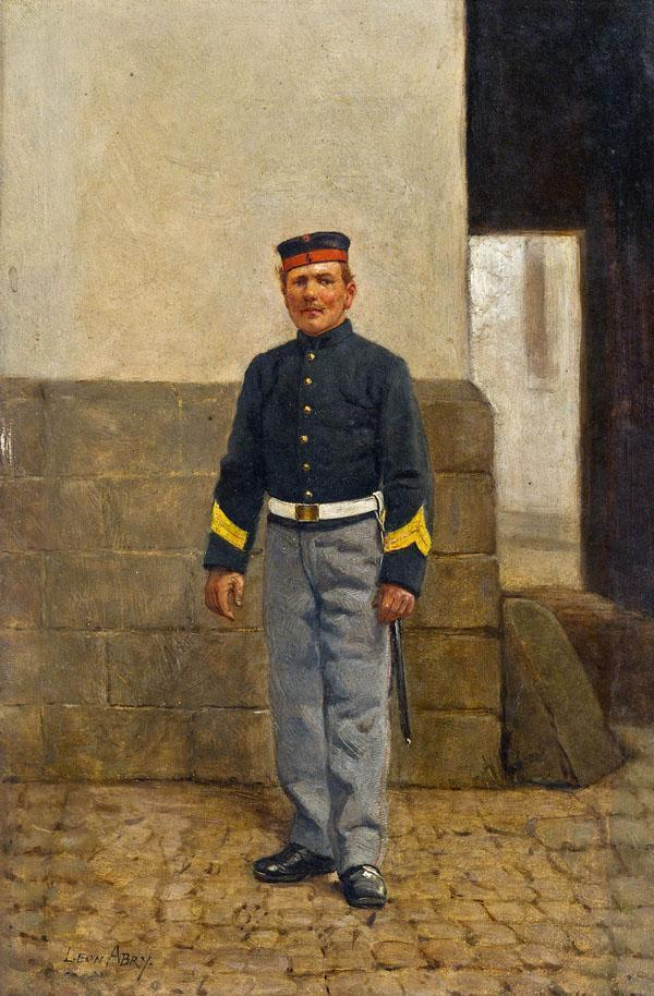 Soldat